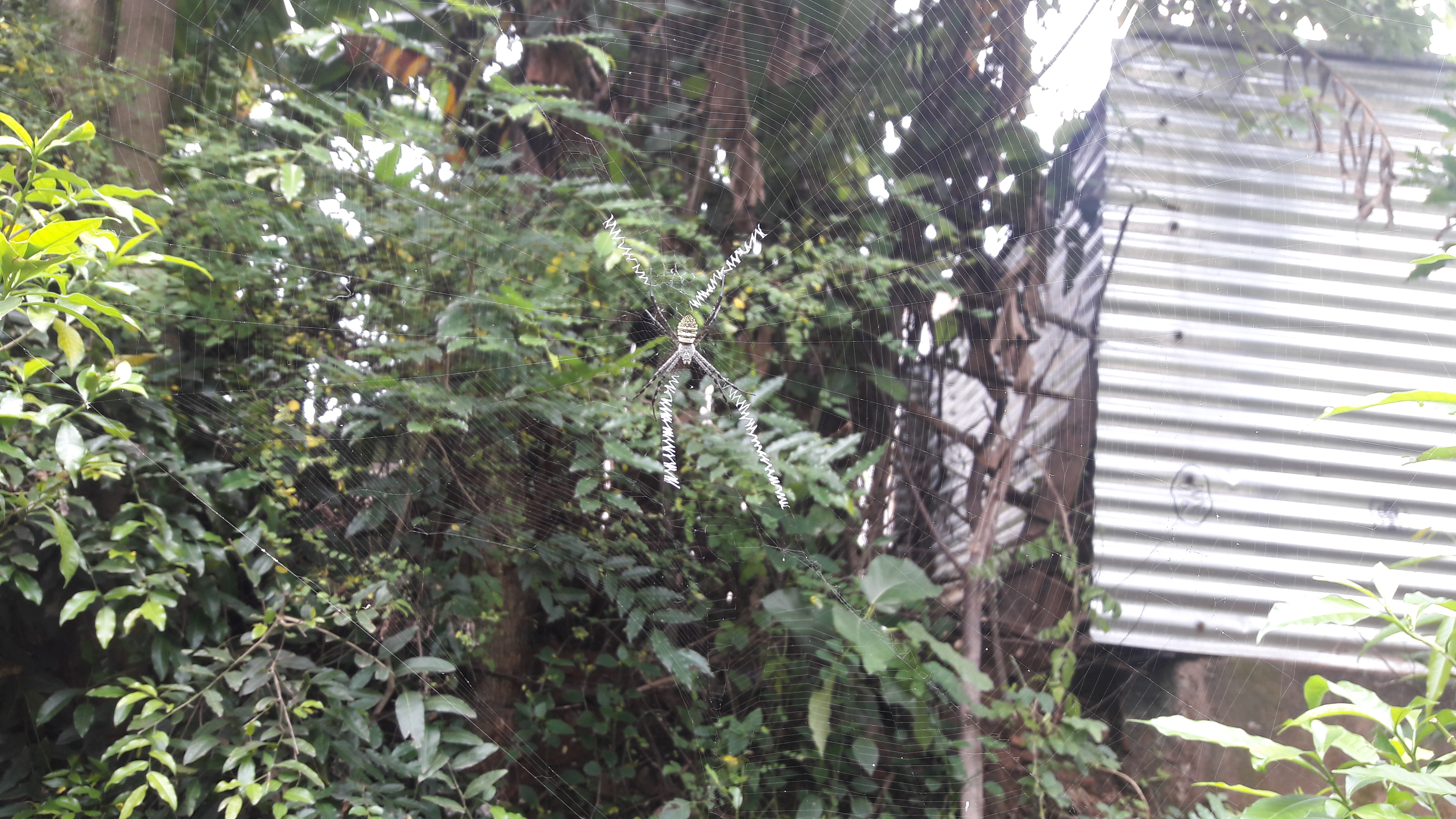 Indian Spider with net